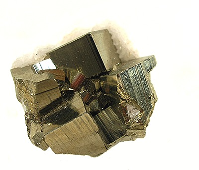 Calcite, Pyrite Locality: Julcani Mine, Julcani District, Angaraes Province, Huancavelica Department, Peru (Locality at ) Size: thumbnail, 2.6 x 2.2 x 1.8 cm Pyrite with Calcite SHARP pyrites draped by lovely contrasting calcite on the back and top. BETTER IN PERSON!